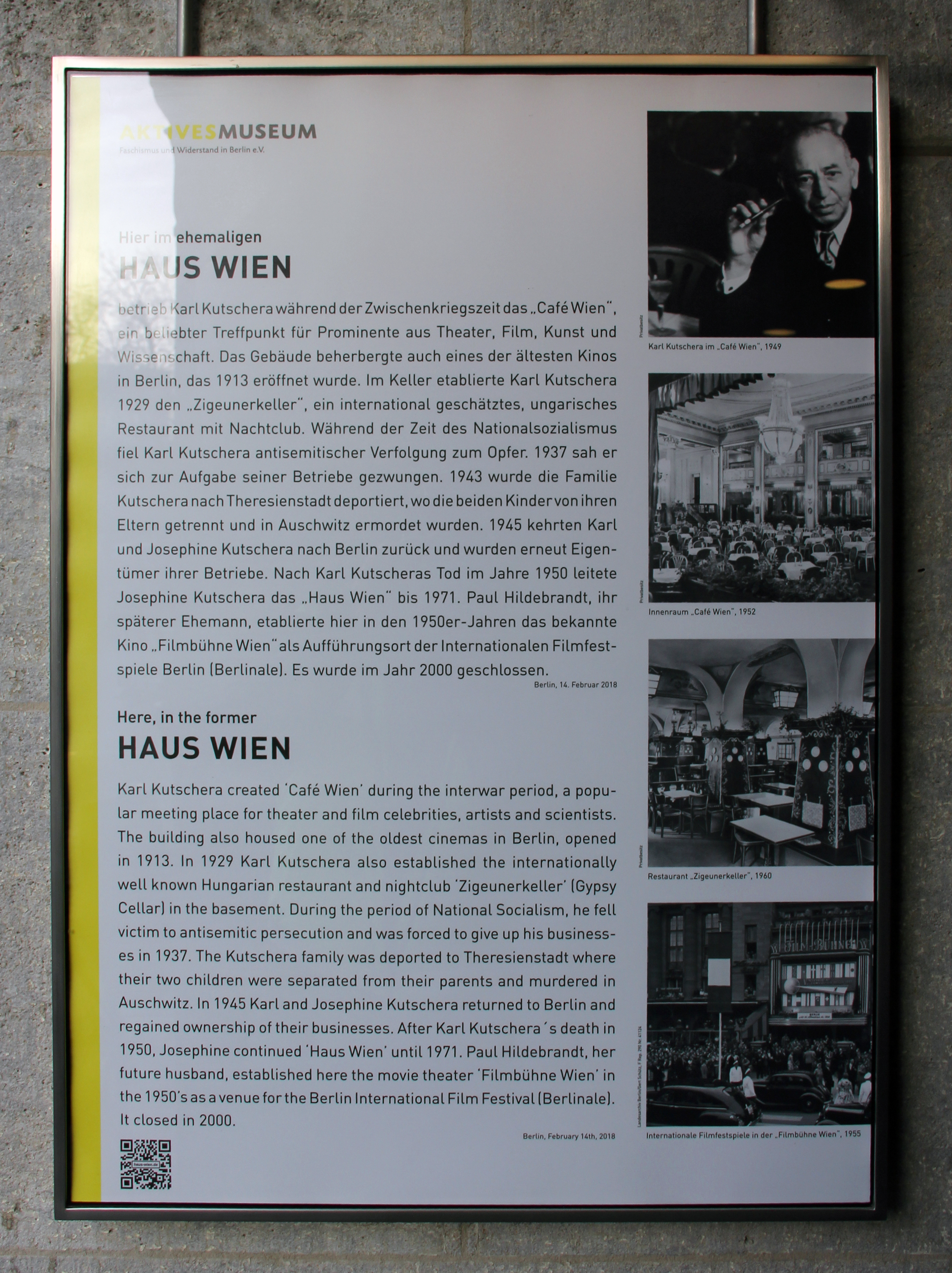 Memorial plaque, Haus Wien, Kurfürstendamm 26, Berlin-Charlottenburg, Deutschland